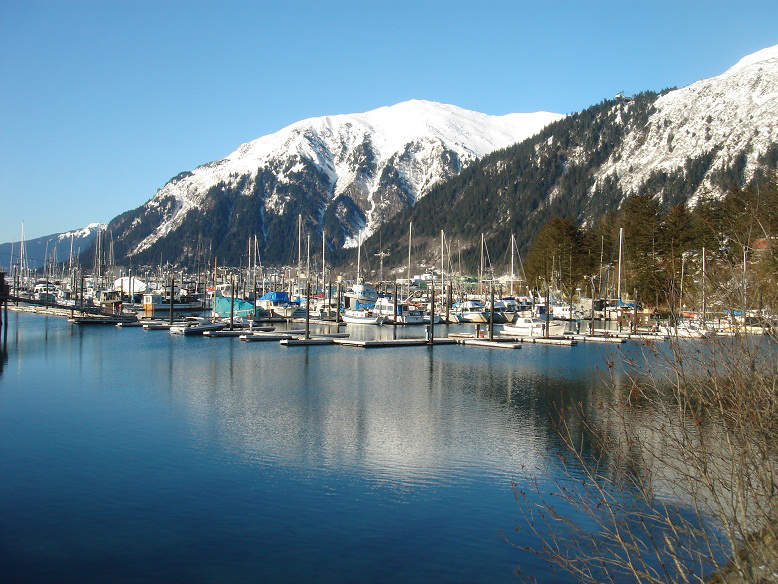 Douglas Harbor in Juneau's Douglas area. The island in the midground contains a US Coast Guard station not open to the public